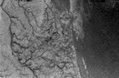 This is one of the first raw images returned by the European Space Agency's Huygens probe during its successfull descent to Titan. It was taken from an altitude of 16.2 kilometres (10.1 mi) with a resolution of approximately 40 metres (131 ft) per pixel. It apparently shows short, stubby drainage channels leading to a shoreline. It was taken with the Descent Imager/Spectral Radiometer, one of two NASA instruments on the probe. The Cassini-Huygens mission is a cooperative project of NASA, the European Space Agency and the Italian Space Agency. The Jet Propulsion Laboratory, a division of the California Institute of Technology in Pasadena, California, manages the Cassini-Huygens mission for NASA's Science Mission Directorate, Washington, D.C. The Cassini orbiter and its two onboard cameras were designed, developed and assembled at JPL. The Descent Imager/Spectral team is based at the University of Arizona, Tucson, Arizona. For more information about the Cassini-Huygens mission visit